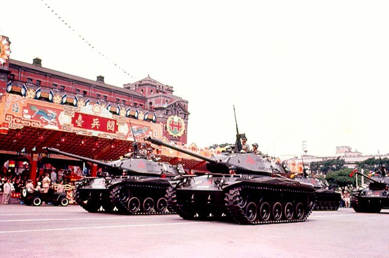 M41 tank in Double Ten Day military parade in front of Presidential Building.